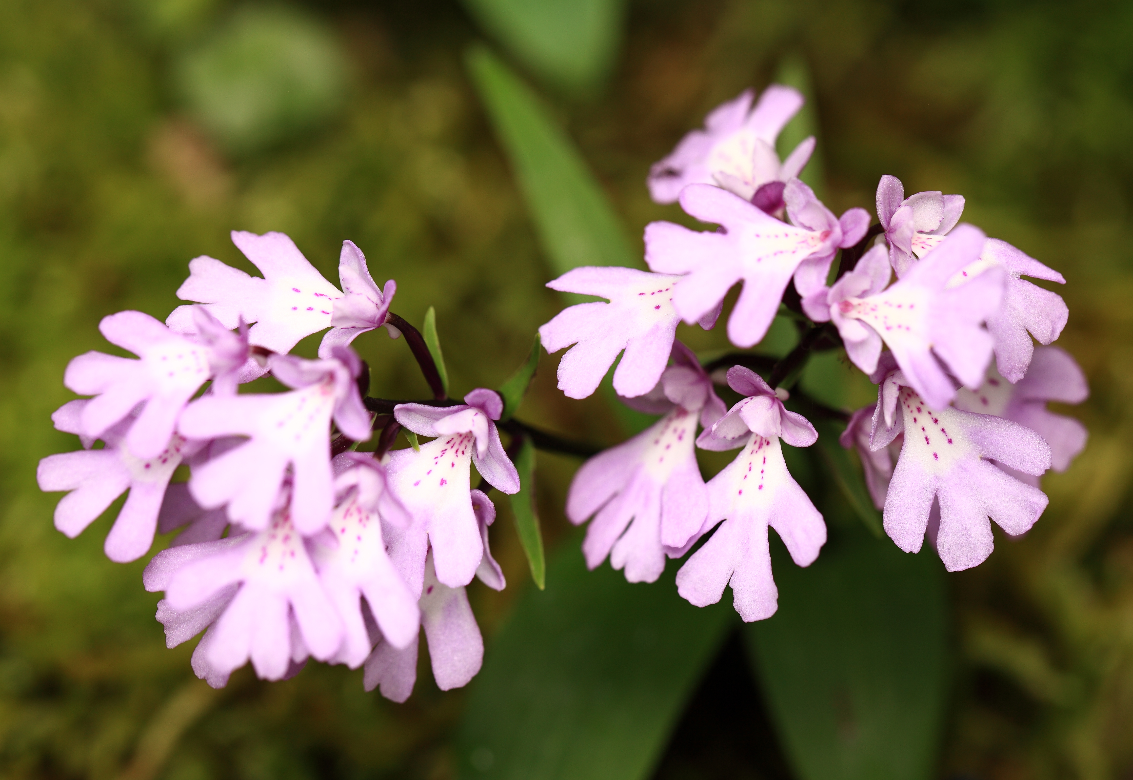 Amitostigma keiskei (Terrestrial Orchid) at Igashira Park, Mooka, Tochigi Prefecture, Japan